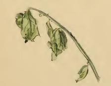 Stainton’s Natural History of the Tineina (1855–1873): Mirificarma maculatella a leaf of Coronilla varia eaten by larva